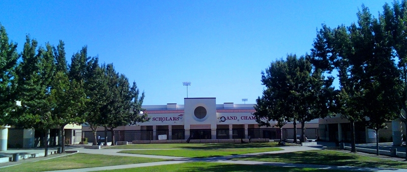 Ayala High School View